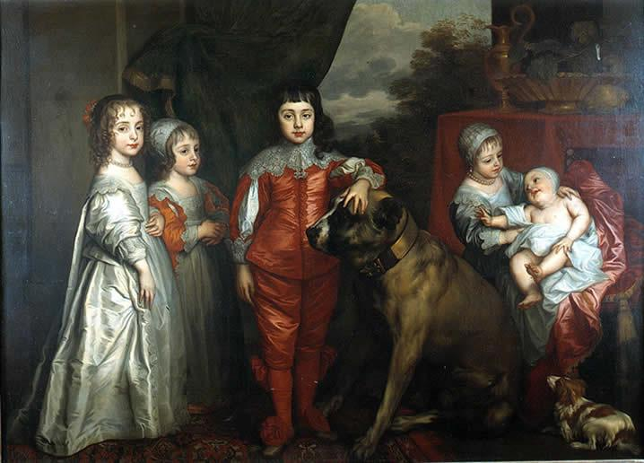 From left, they are Mary, James, Charles, Elizabeth, and Anne.